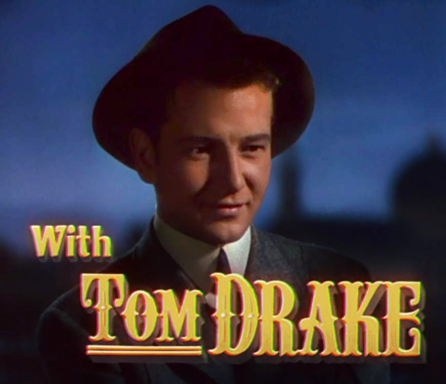 Cropped screenshot of Tom Drake from the trailer for the film Meet Me in St. Louis.